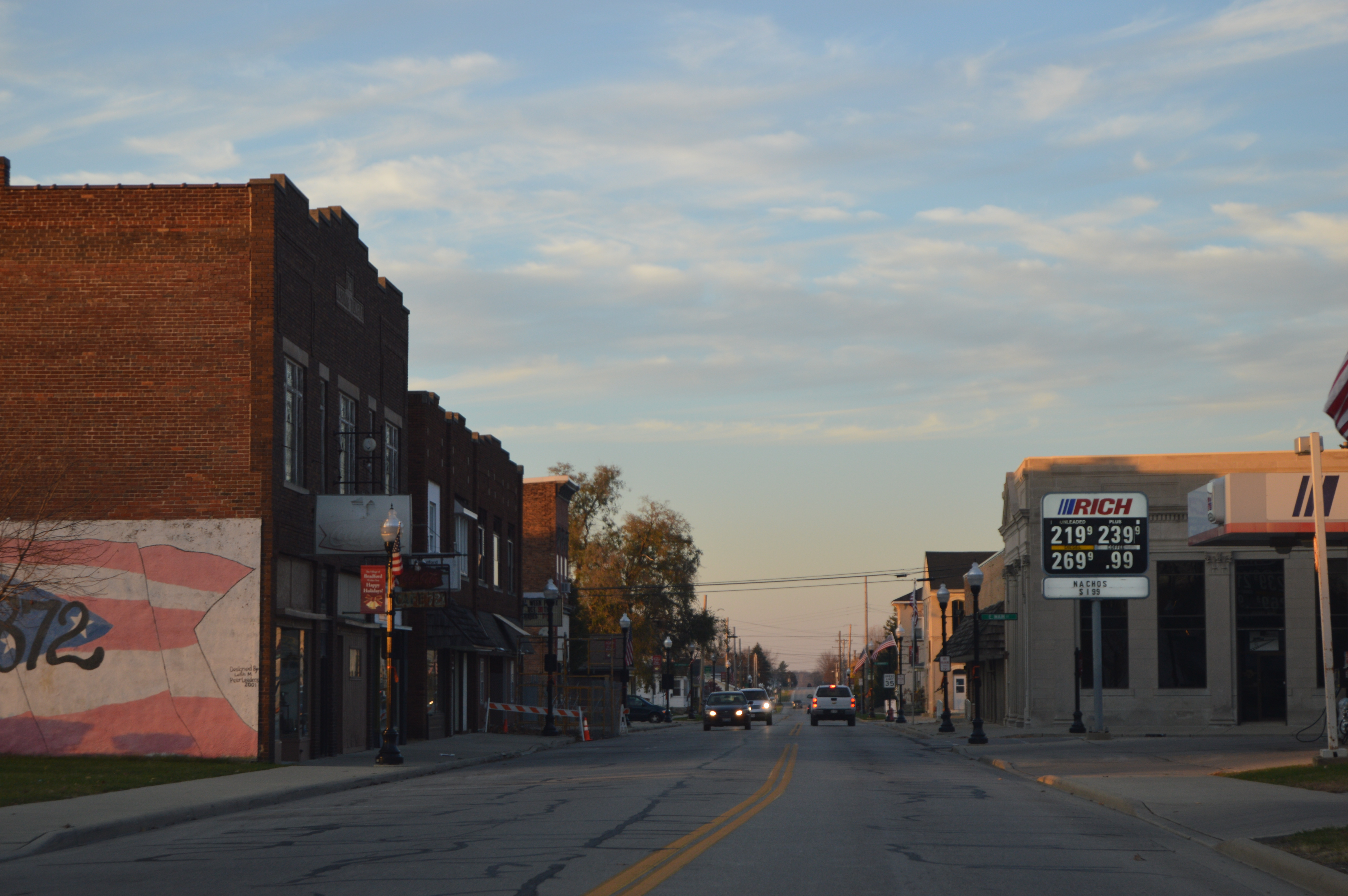 Looking northward on Miami Avenue (State Route 721) just south of the Main Street intersection in Bradford, Ohio, United States. The western (left) side of the street is in Darke County, while the eastern (right) side is in Miami County.